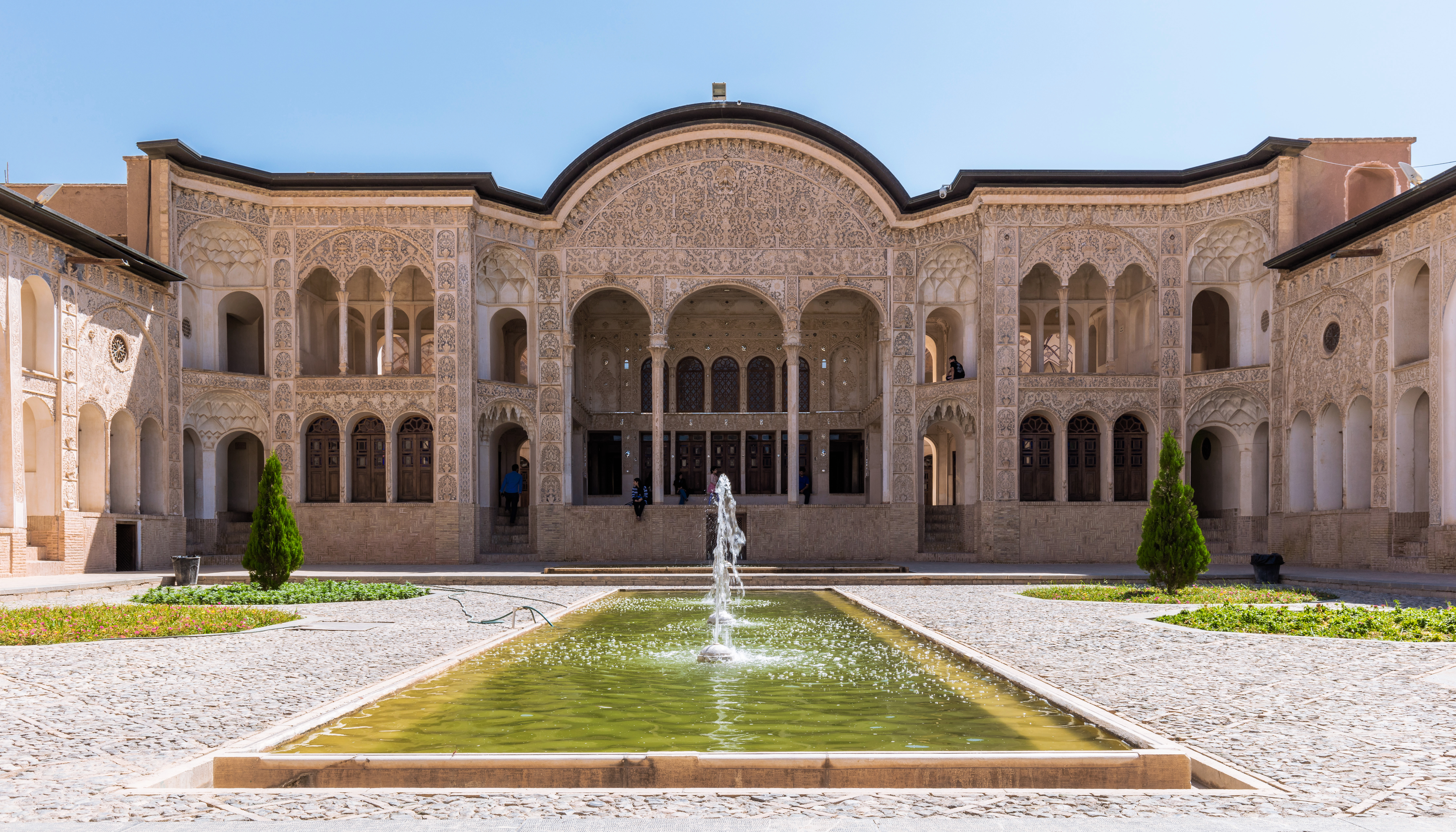 Tabatabaeis Historic House, Kashan, Iran